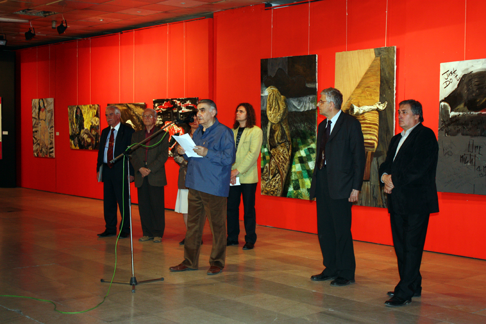 Svetlin Rusev announces young artists prizes